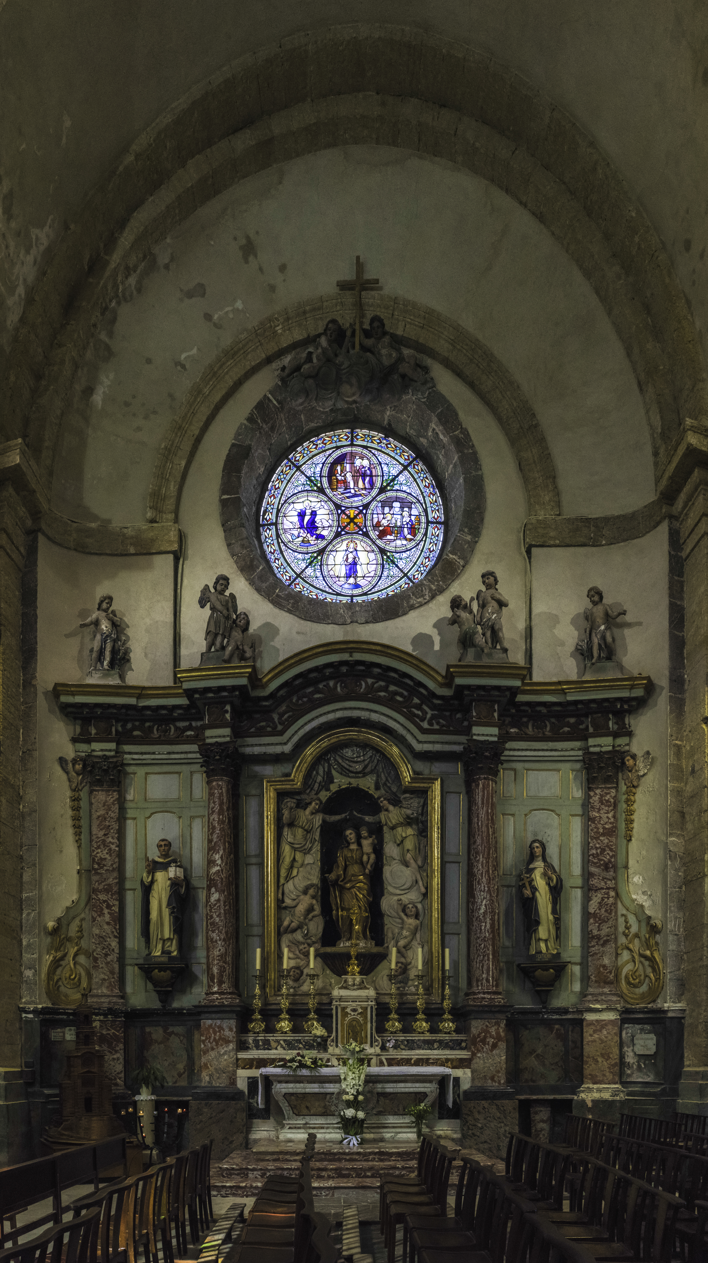 Saint-Louis Church. Sète, Hérault, France. .